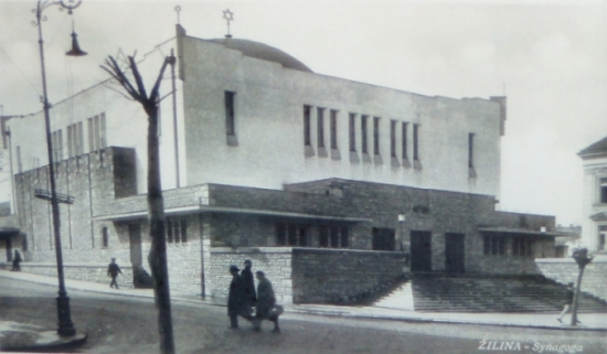 The New Synagogue, Zilina (1931 postcard)